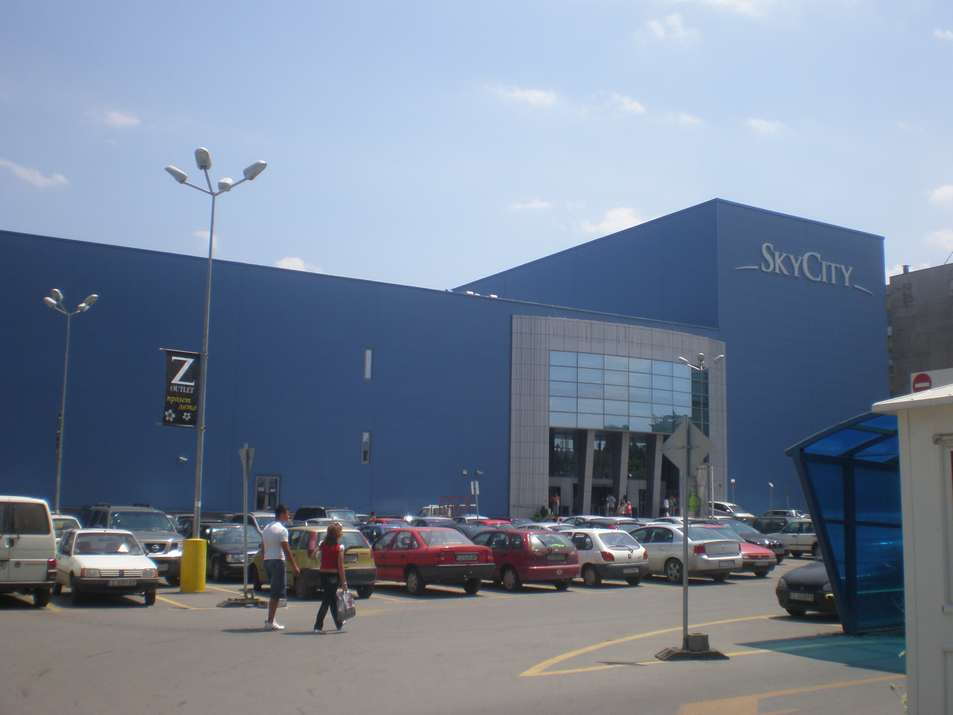 Sky City Mall, Geo Milev district, Sofia